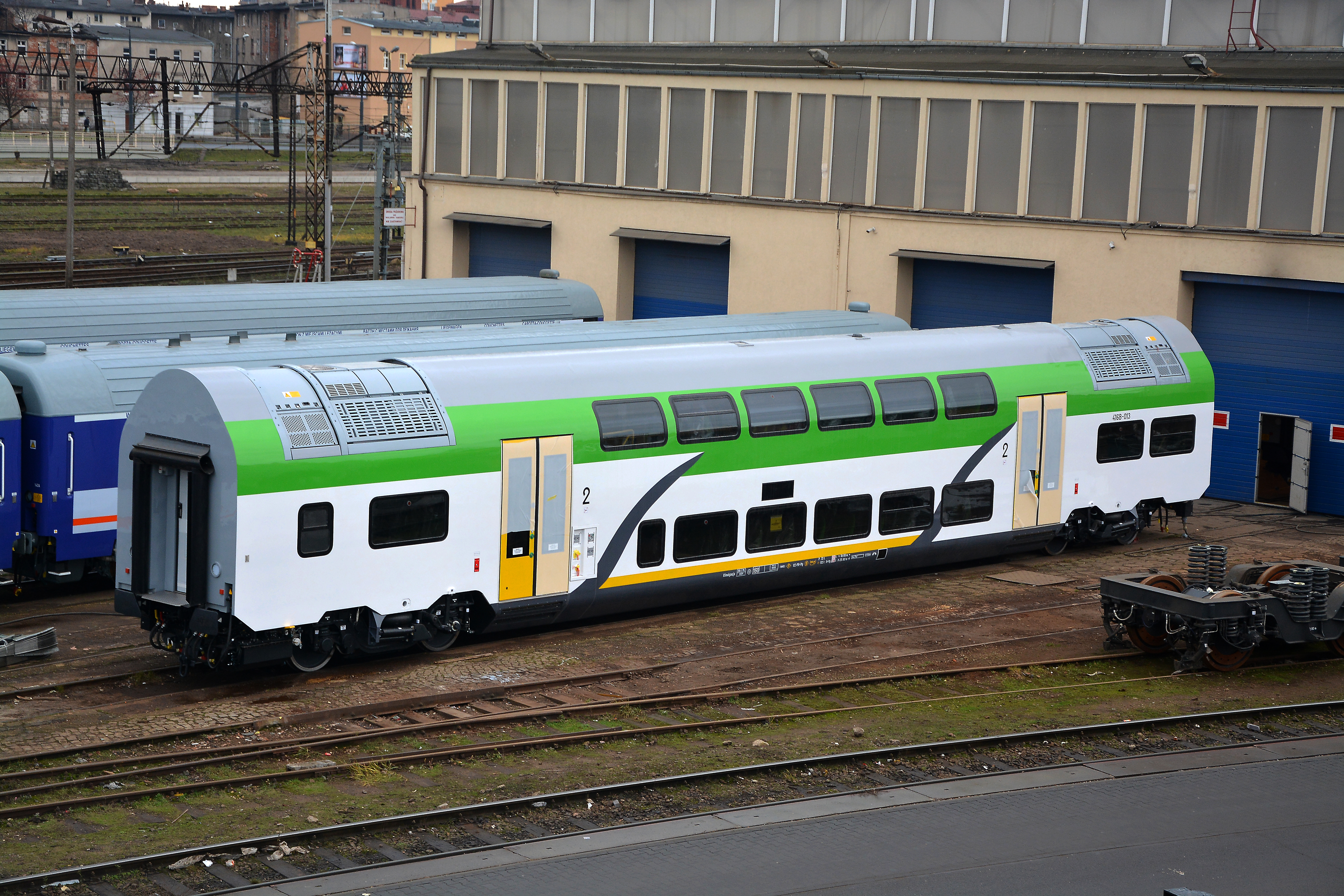 Pesa Sundeck 416B-013 for Koleje Mazowieckie in Bydgoszcz plant